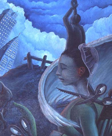 The heroine sits on an inanimate rocker implanted in the soil. The chair provides the security of tradition. The phallic desires of men cut at her clothing, tempting her to abandon the dress that camouflages her femininity. Her liberated friends discard their conservative garb, striding towards modernity and worldliness. The praying man symbolizes the much-debated role of headship. The Bible suggests that the veil gives the woman the protection of angels. My Mennonite ancestors embraced this esoteric symbol with great conviction although at one time it was fashionable for all women.